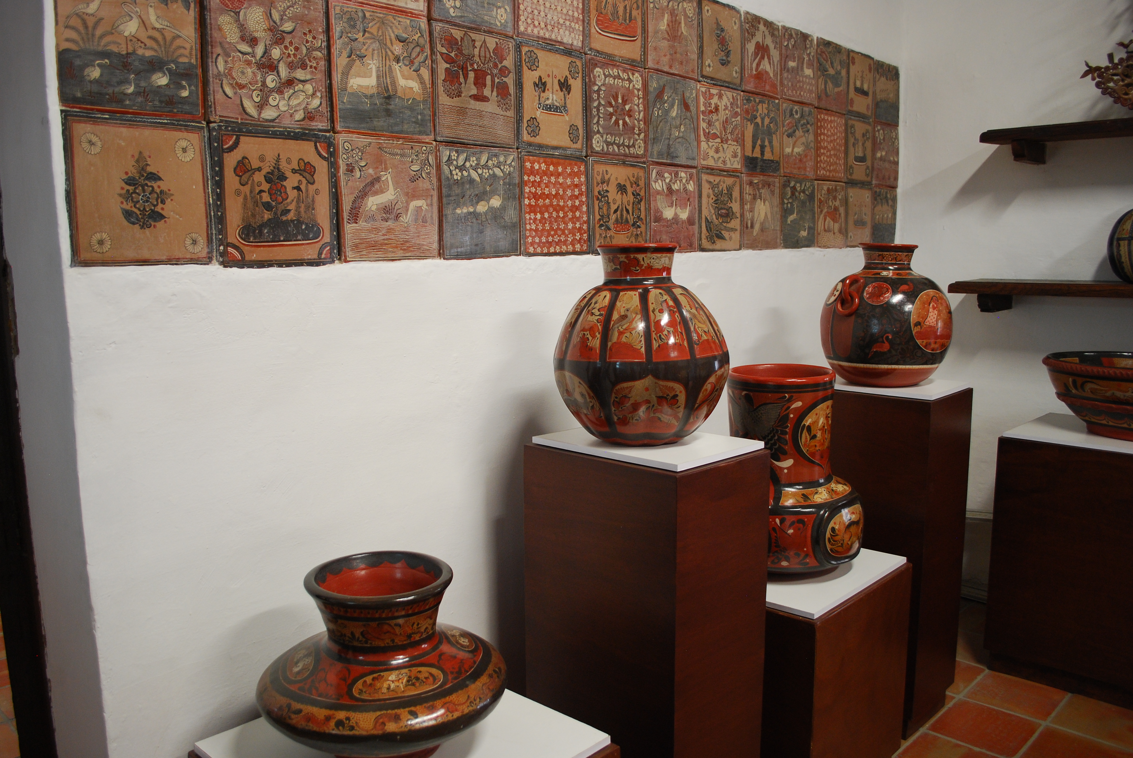 Display area at the Museo Regional de Ceramica in Tlaquepaque, Jalisco, Mexico